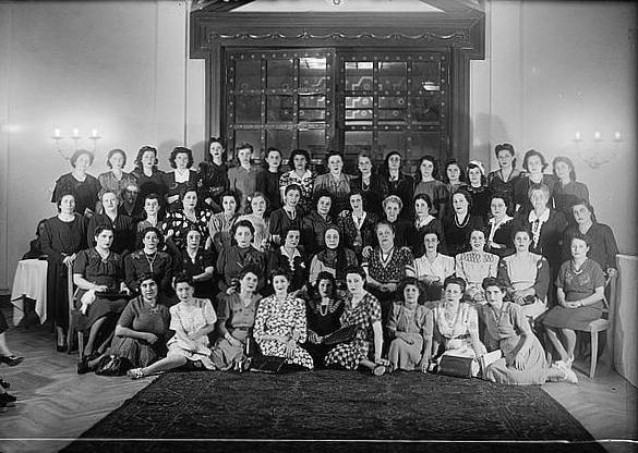 Arab women union Palestine